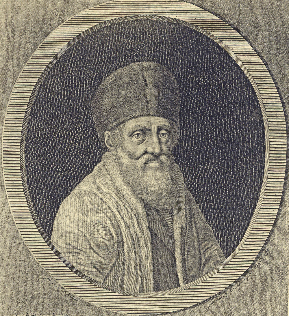 Picture of Hirschel Levin